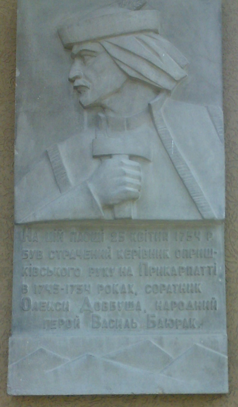 Memorial plate of Vasyl Bayurak on the wall of Ratusha in Ivano-Frankivsk